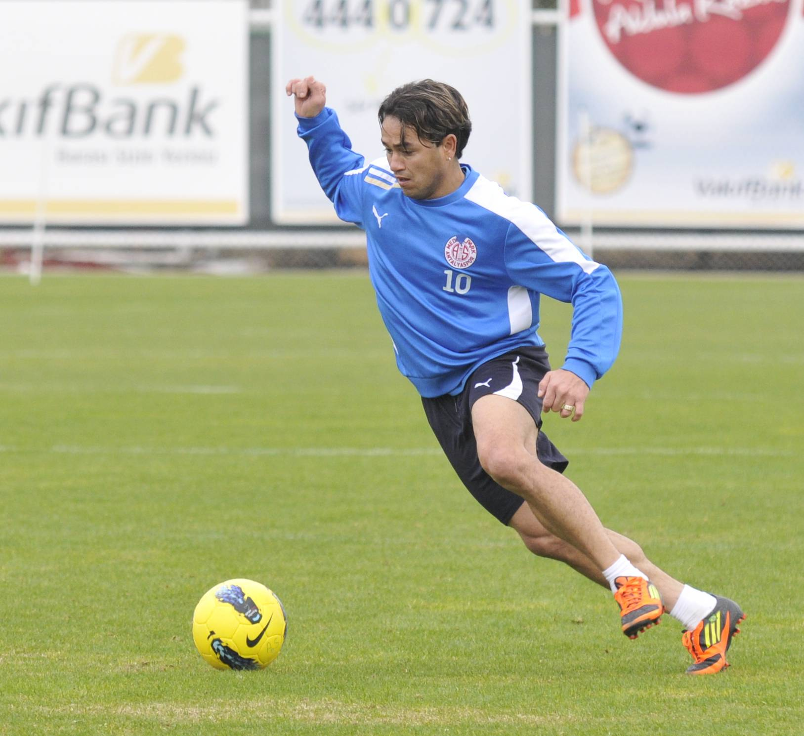 Photo : Murat Özgen